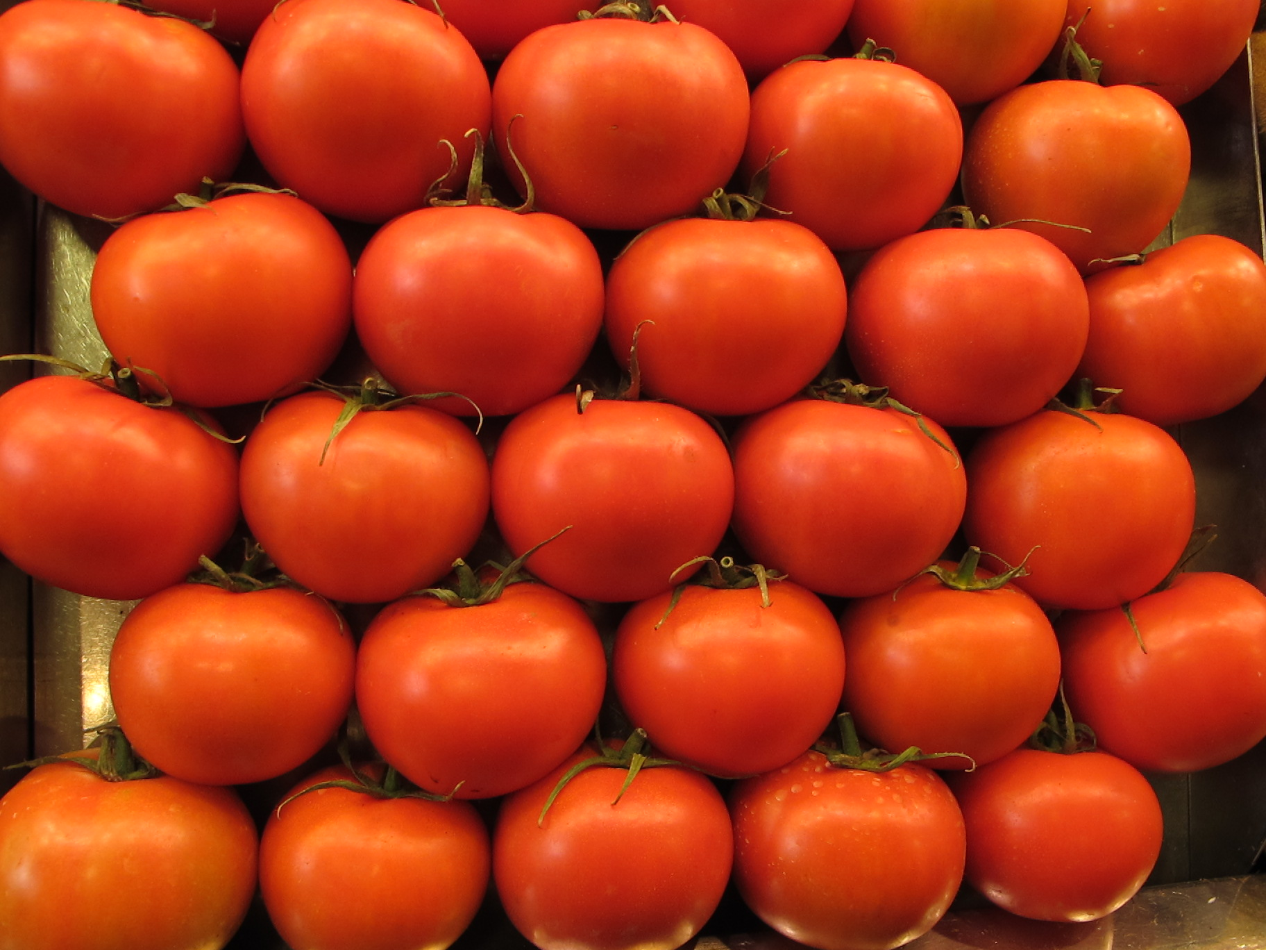 picture of tomatoes at the market